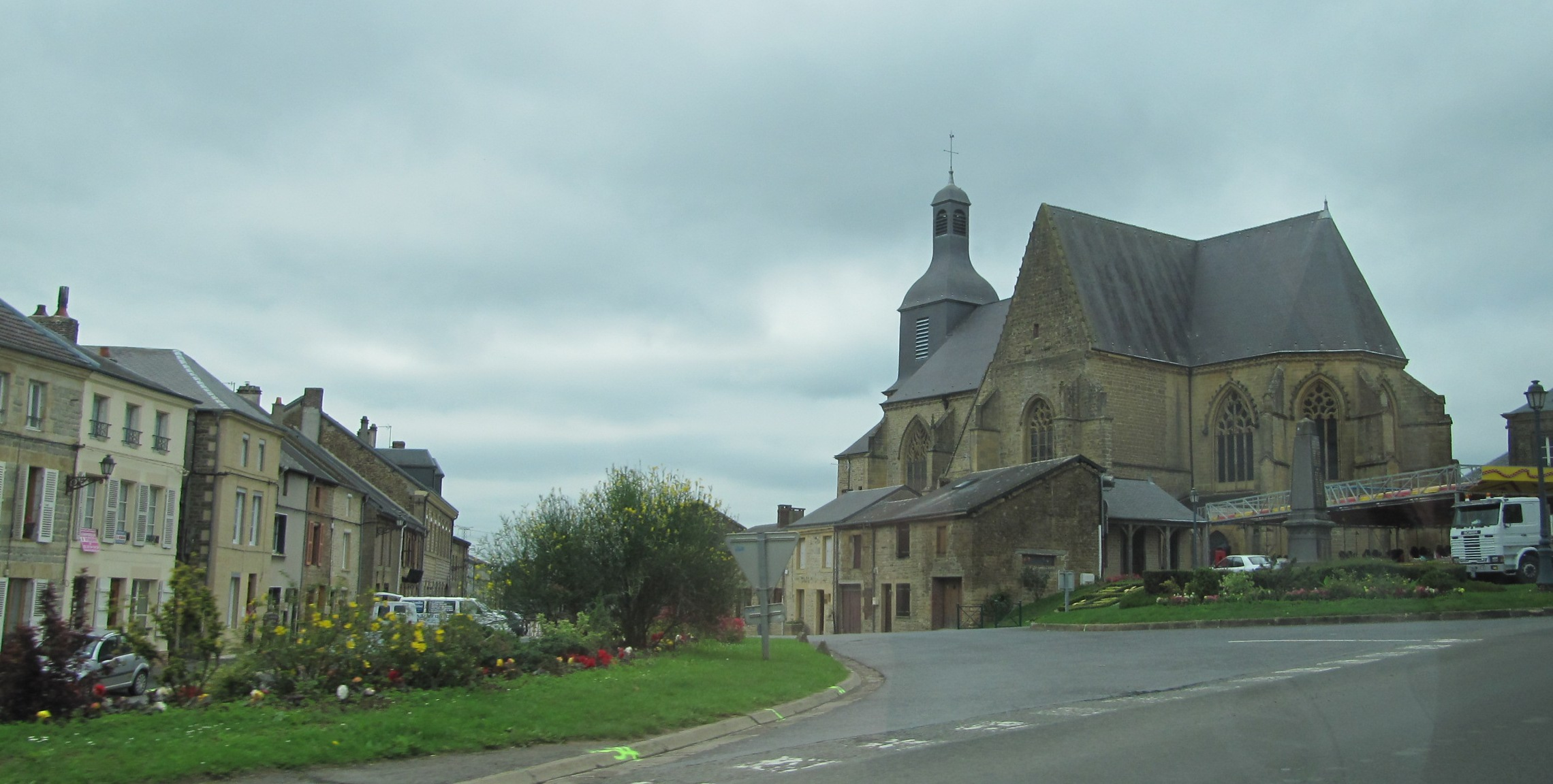 Renwez